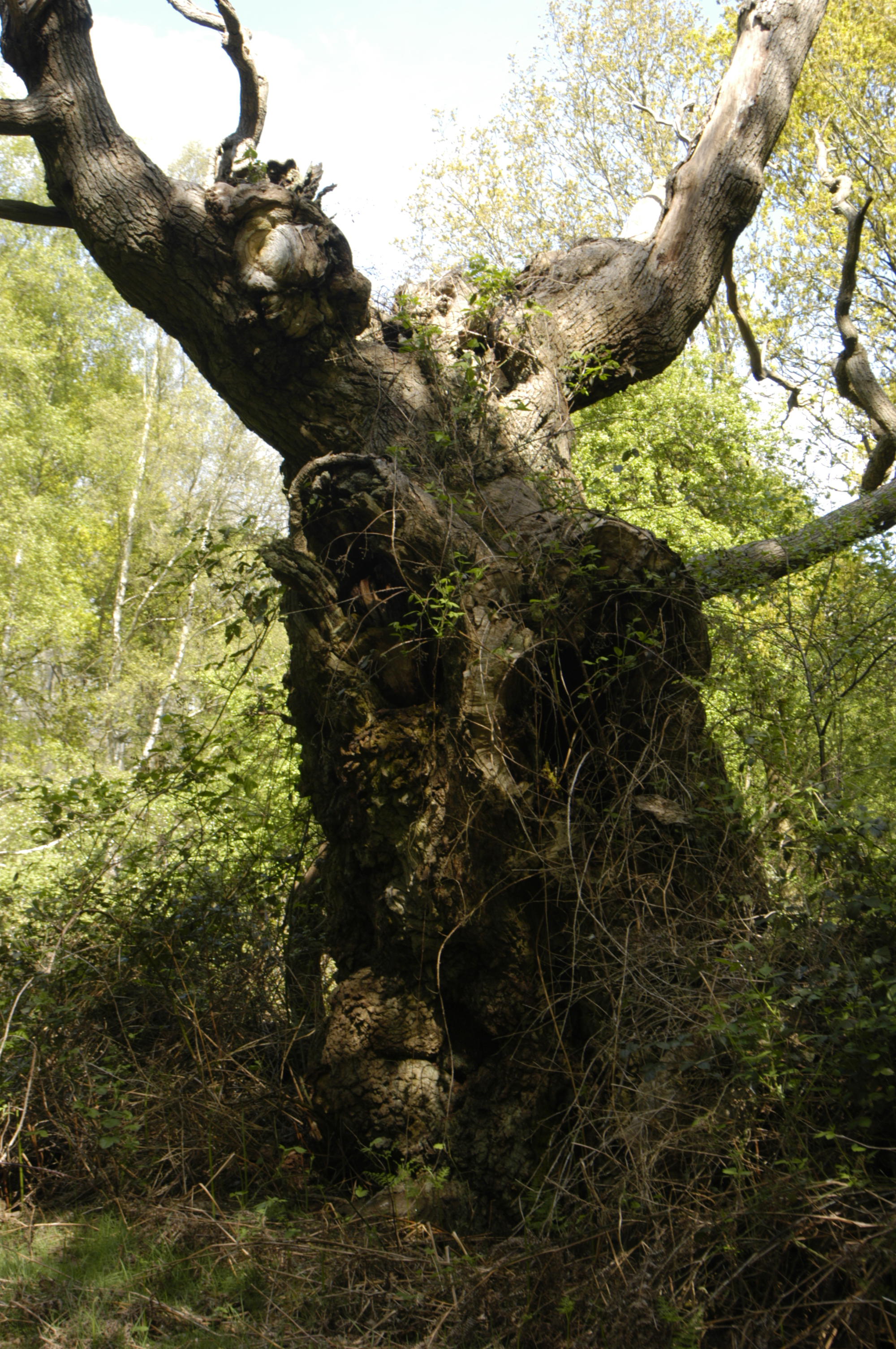 Ancient veteran pollard oak in western Berkshire's Aldermaston court's derelict wood pasture or park, April 2017.